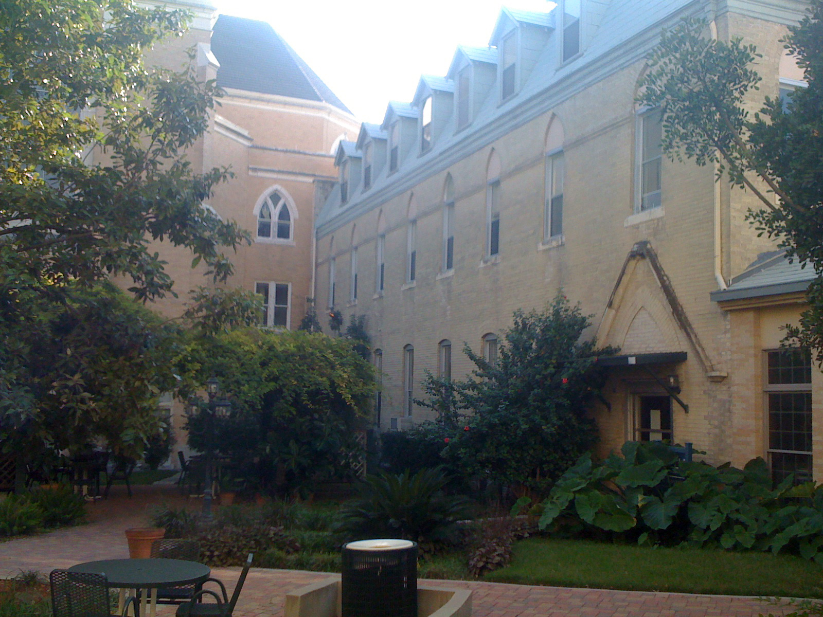 Our Lady of the Lake University, Texas.